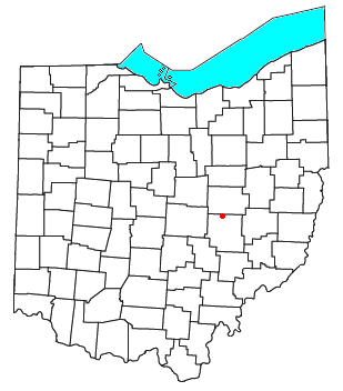 Locator map of the unincorporated community of Trinway in Muskingum County, Ohio, United States.